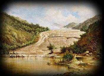 Painting of the Pink Terraces, near Rotorua, New Zealand.